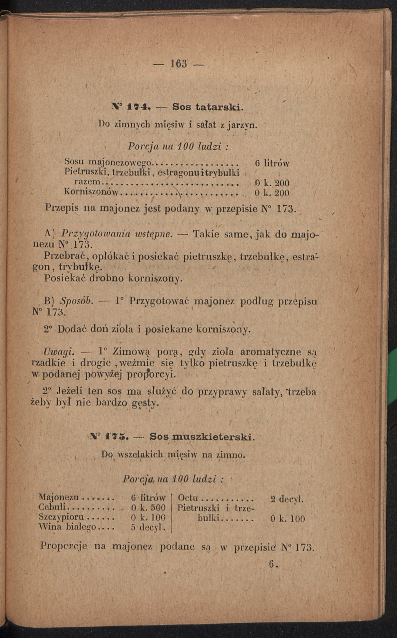 Recipe for sauce tartare in a Polish Army cookbook, 1918